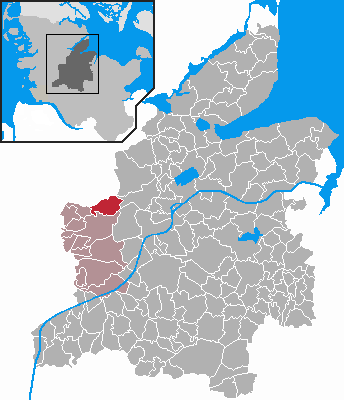 Locator maps of municipalities in Schleswig-Holstein - District Rendsburg-Eckernförde